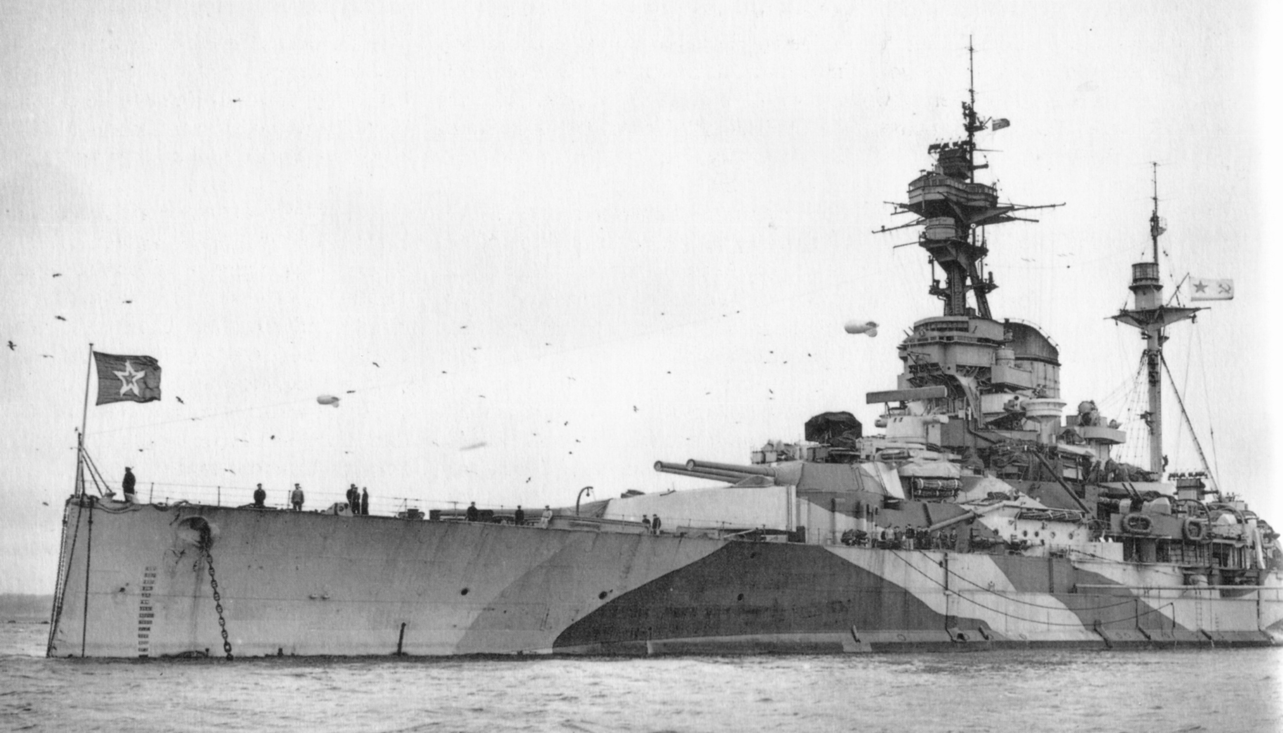 Scapa Flow 30 may 1944: Soviet battleship Arkhangelsk, former British Royal Sovereign